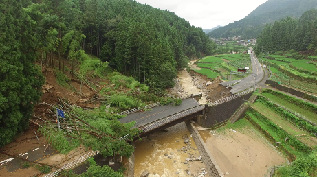 Ōhi River was overflowed by the Northern Kyūshū Heavy Rain in Tōhō Village, Asakura District, Fukuoka Prefecture on July 8, 2017.